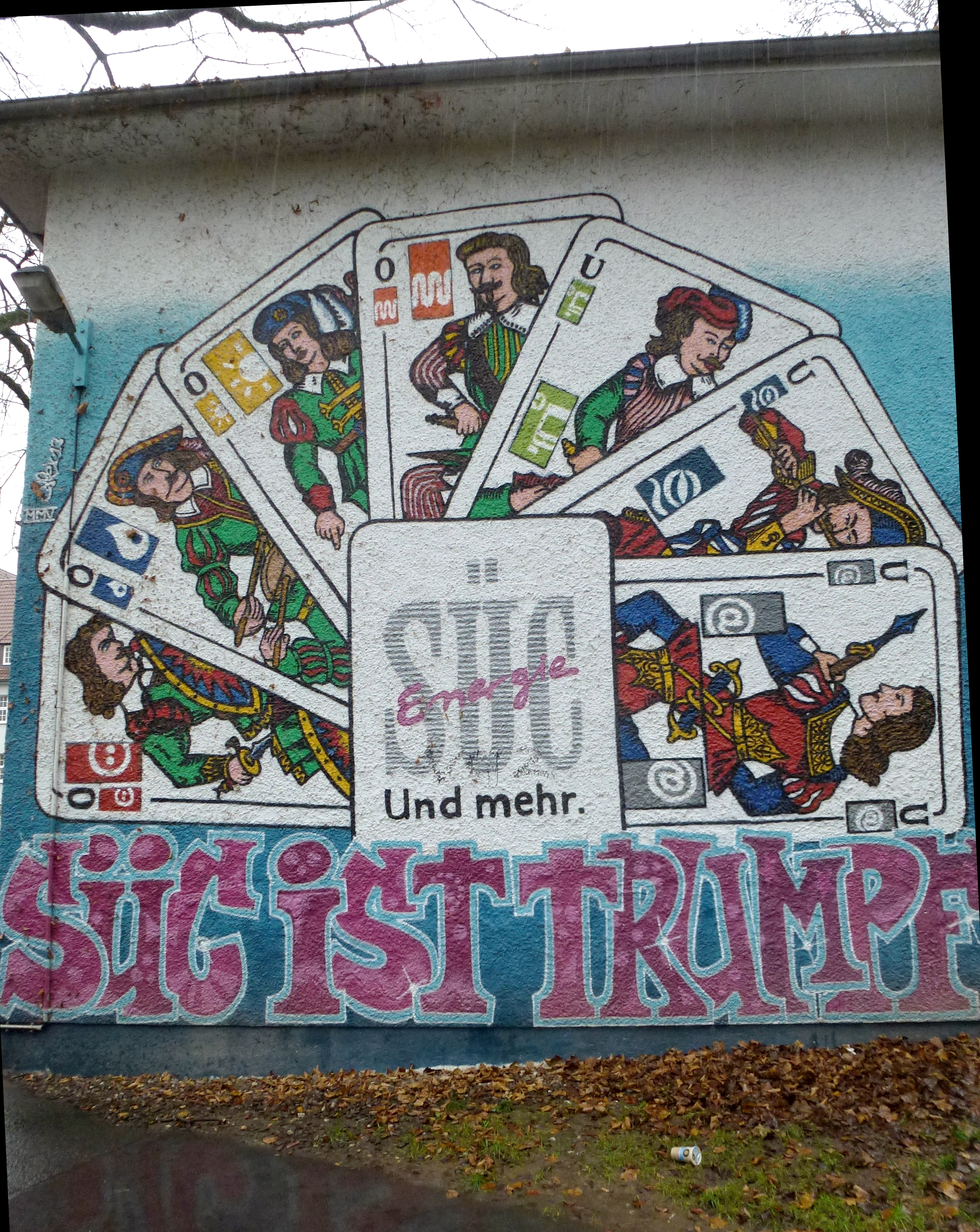 Modern street art in coburg